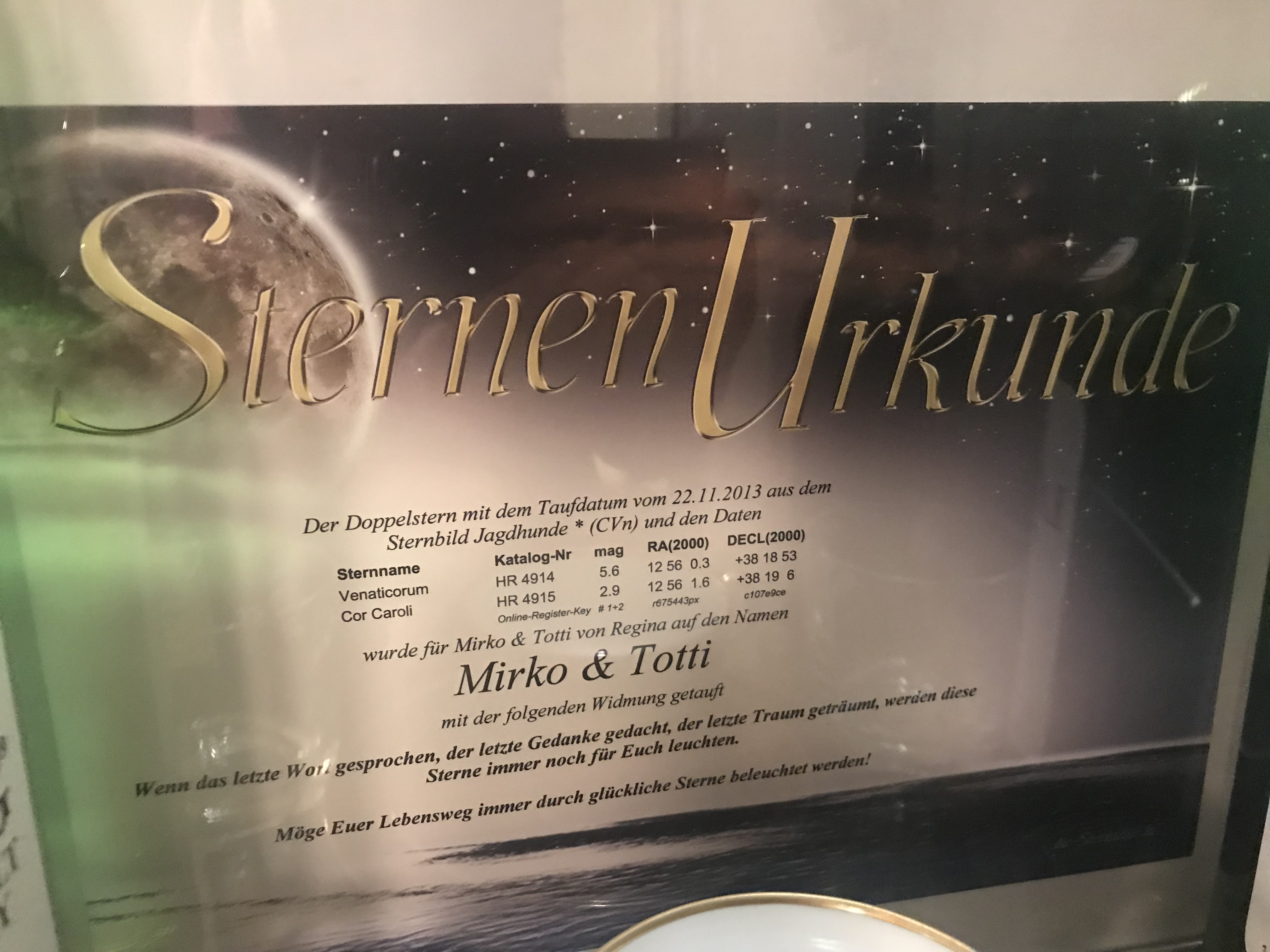 German certificate for a private registration of binary star system Cor Caroli, literally a “baptismal certificate”